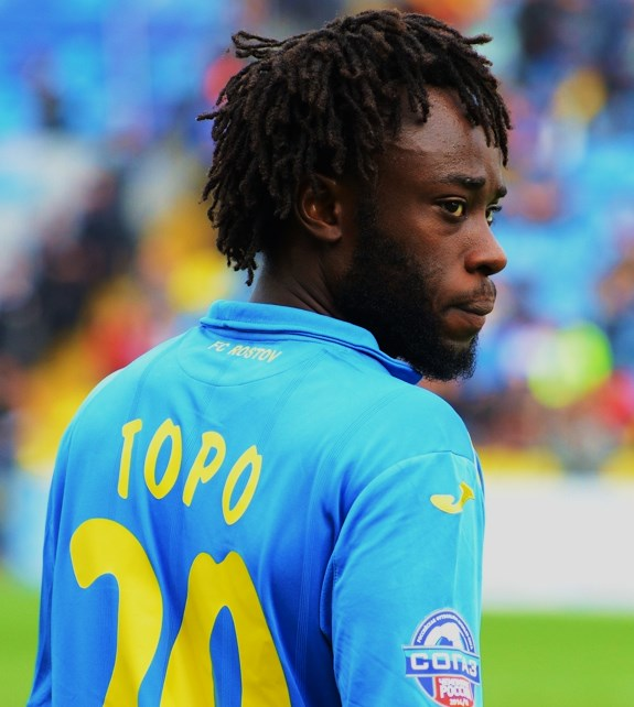 Réginal Goreux